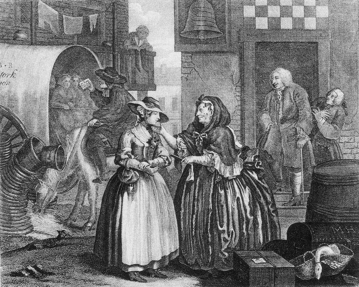 Copper-engraving in reduced shape of William Hogarth's "A Harlot's Progress", Plate 1.